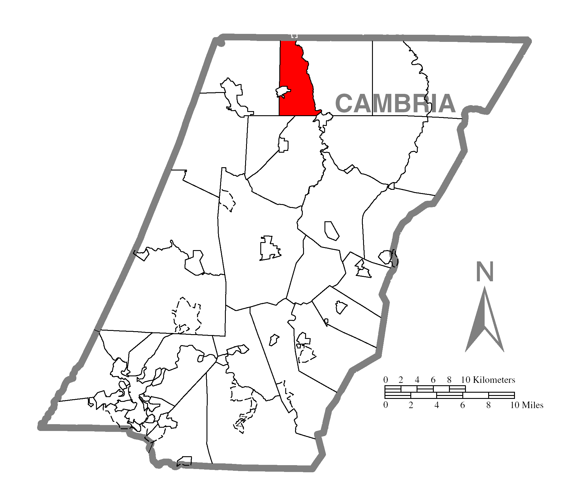 A map of Cambria County showing Elder Township, Pennsylvania (alternate) highlighted on the map.